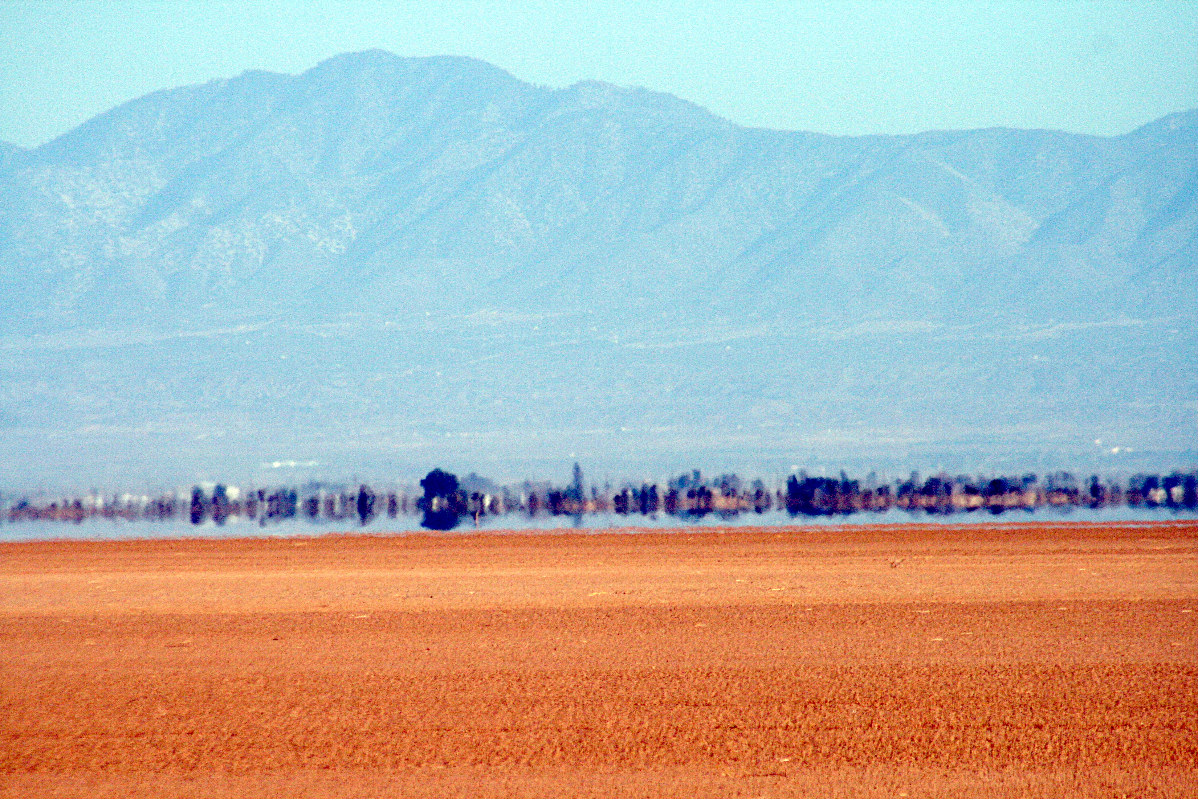 Inferior Mirage in Mojave Desert.